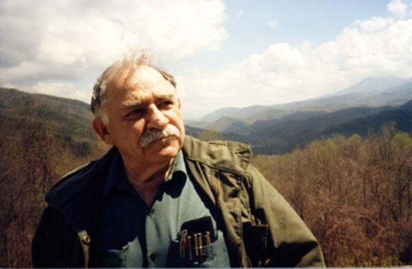 Murray Bookchin with mountains